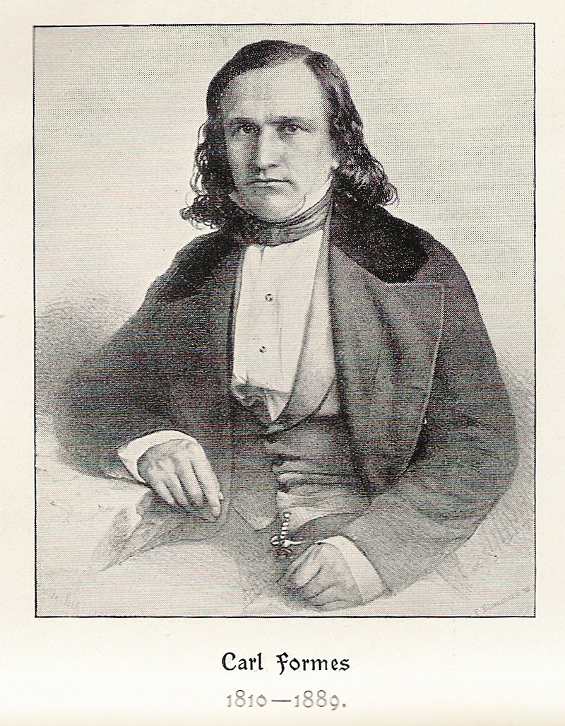 Portrait of German opera singer Carl Formes (1811-1889)